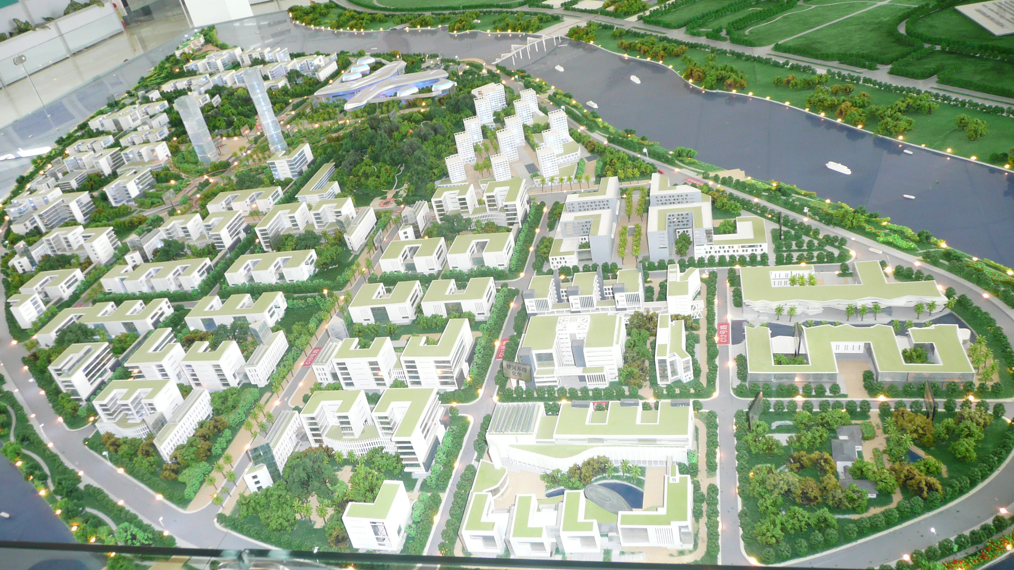 Model of Guangzhou International Biotech Island, China